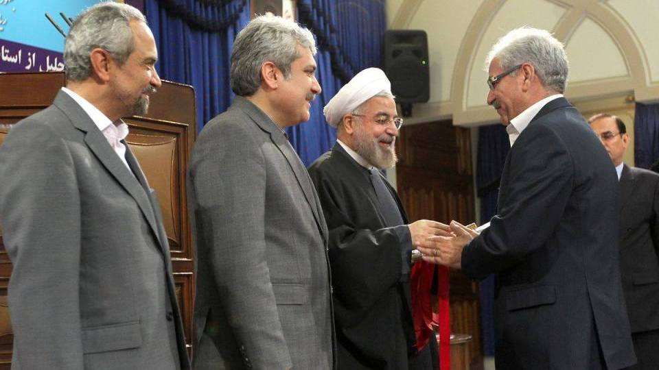 dralavipanah